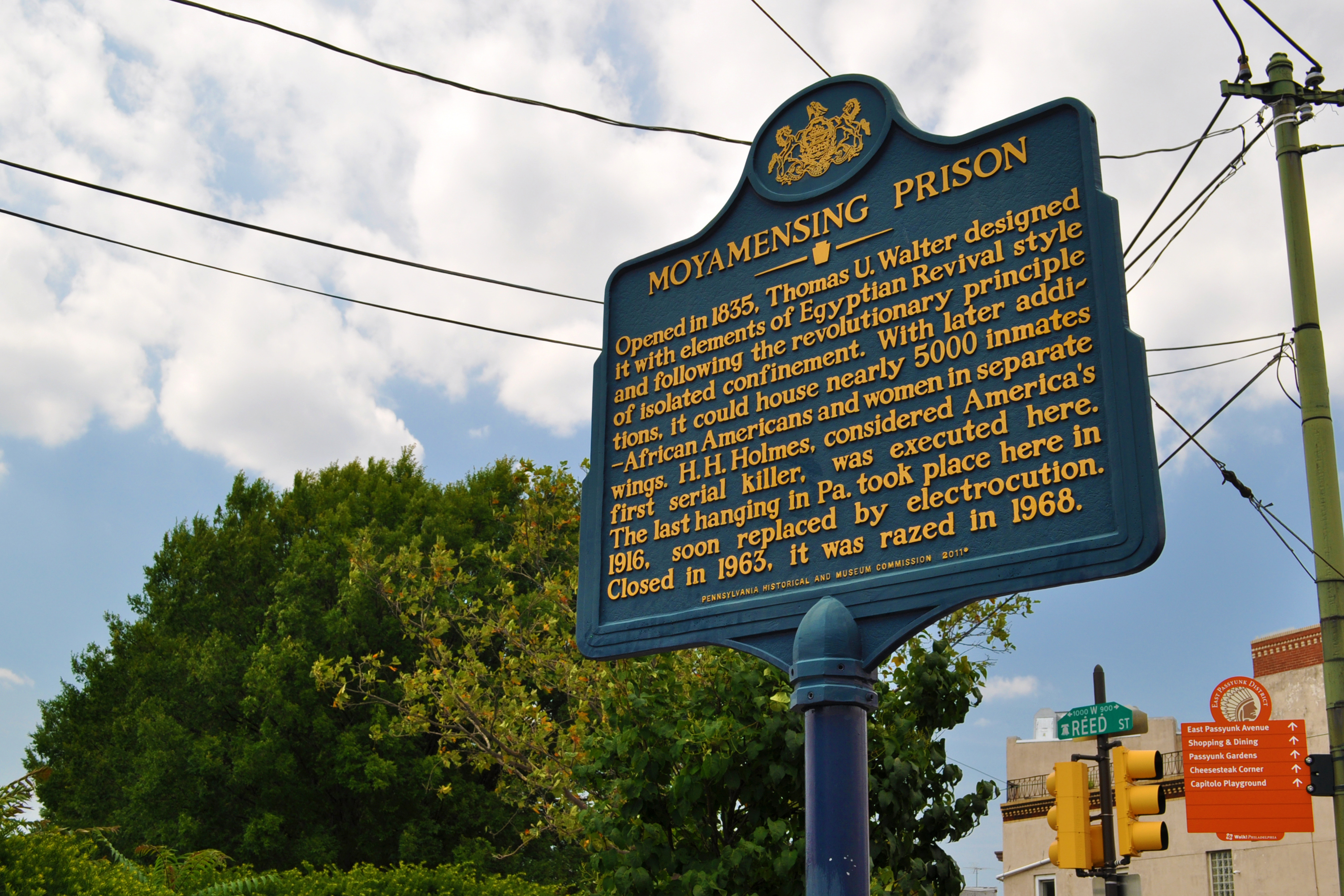 Moyamensing Prison. Opened in 1835, Thomas U. Walter designed it with elements of Egyptian Revival style and following the revolutionary principle of isolated confinement. With later additions, it could house nearly 5000 inmates - African Americans and women in separate wings. H. H. Holmes, considered Americas first serial killer, was executed here. The last hanging in Pa. took place here in 1916, soon replaced by electrocution. Closed in 1963, it was razed in 1968. (Historical Marker at E Passyunk Ave and S 10th St at Corner of Reed St Philadelphia PA - PA Historical & Museum Commission 2011)